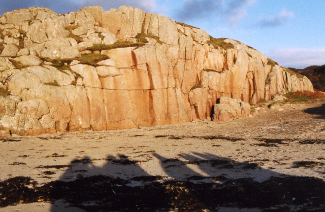 Knockvologan, Mull, Scotland. Low winter sunshine on an outcrop of typical pink granite by the beach opposite the Isle of Erraid.